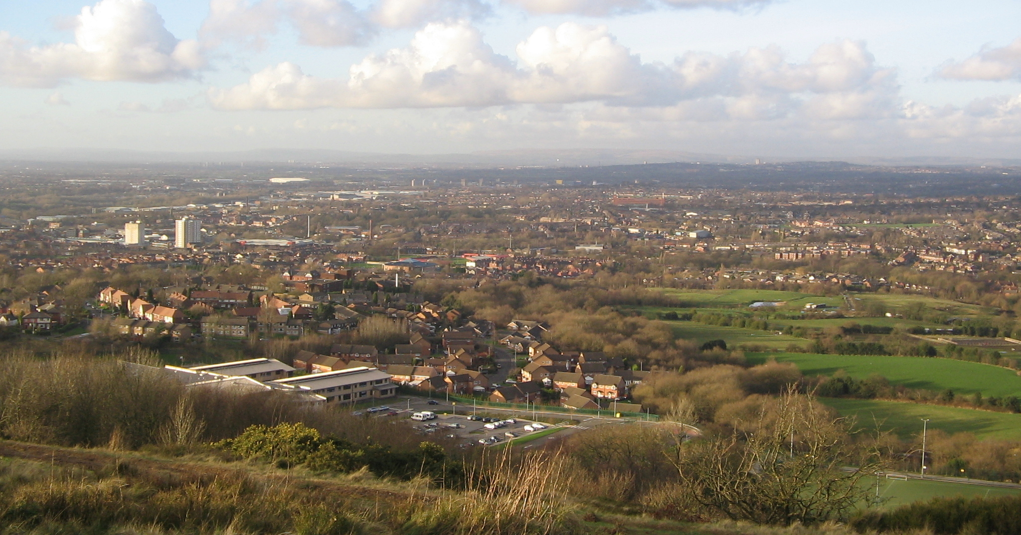 Looking across Hyde (left, foreground), with Ashton-under-Lyne (centre) in the background. In the hills in the far distance is Oldham.